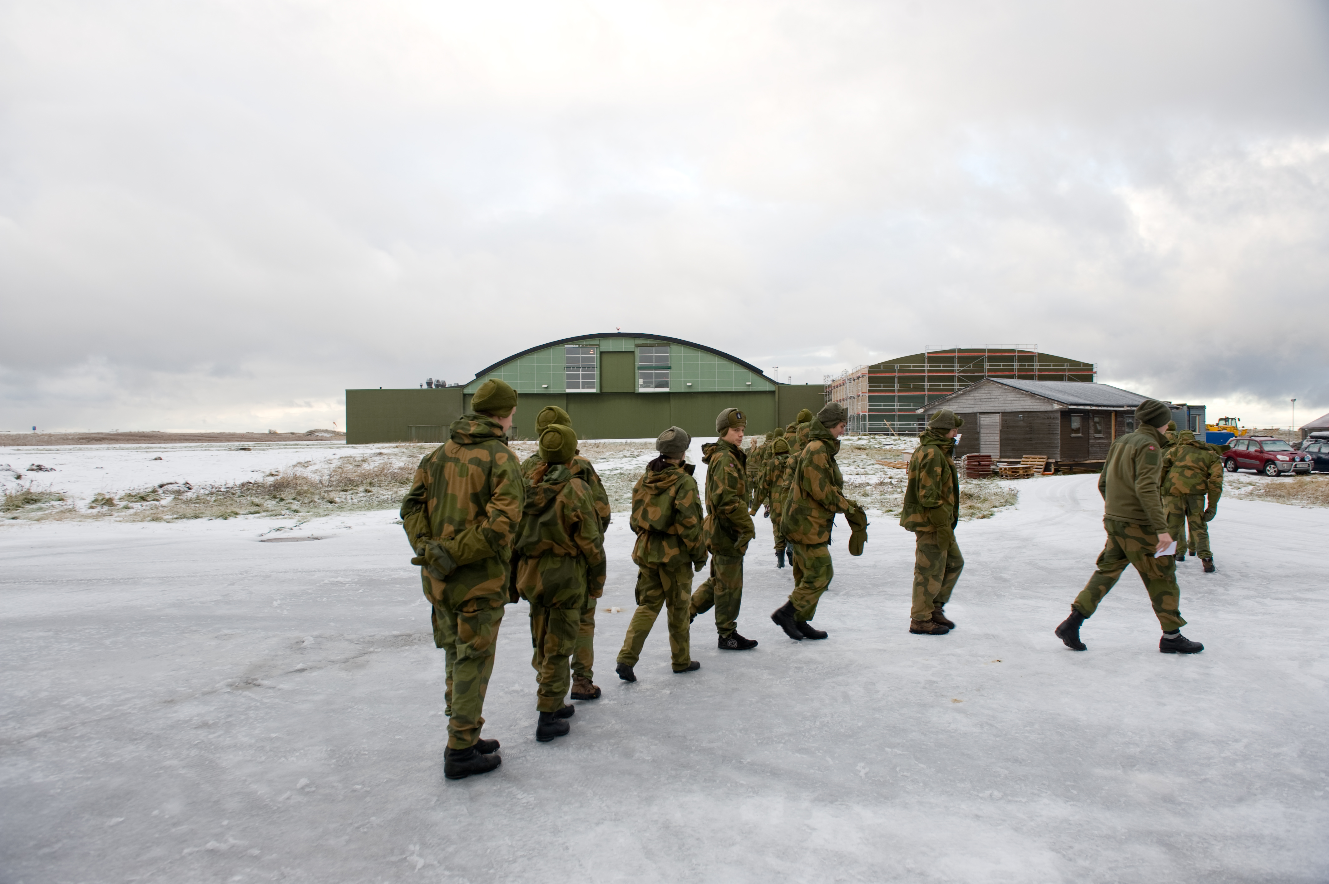 andøya (16 of 40)